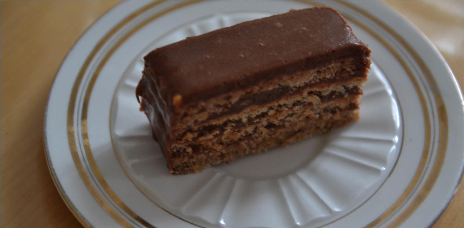 Reform Torta